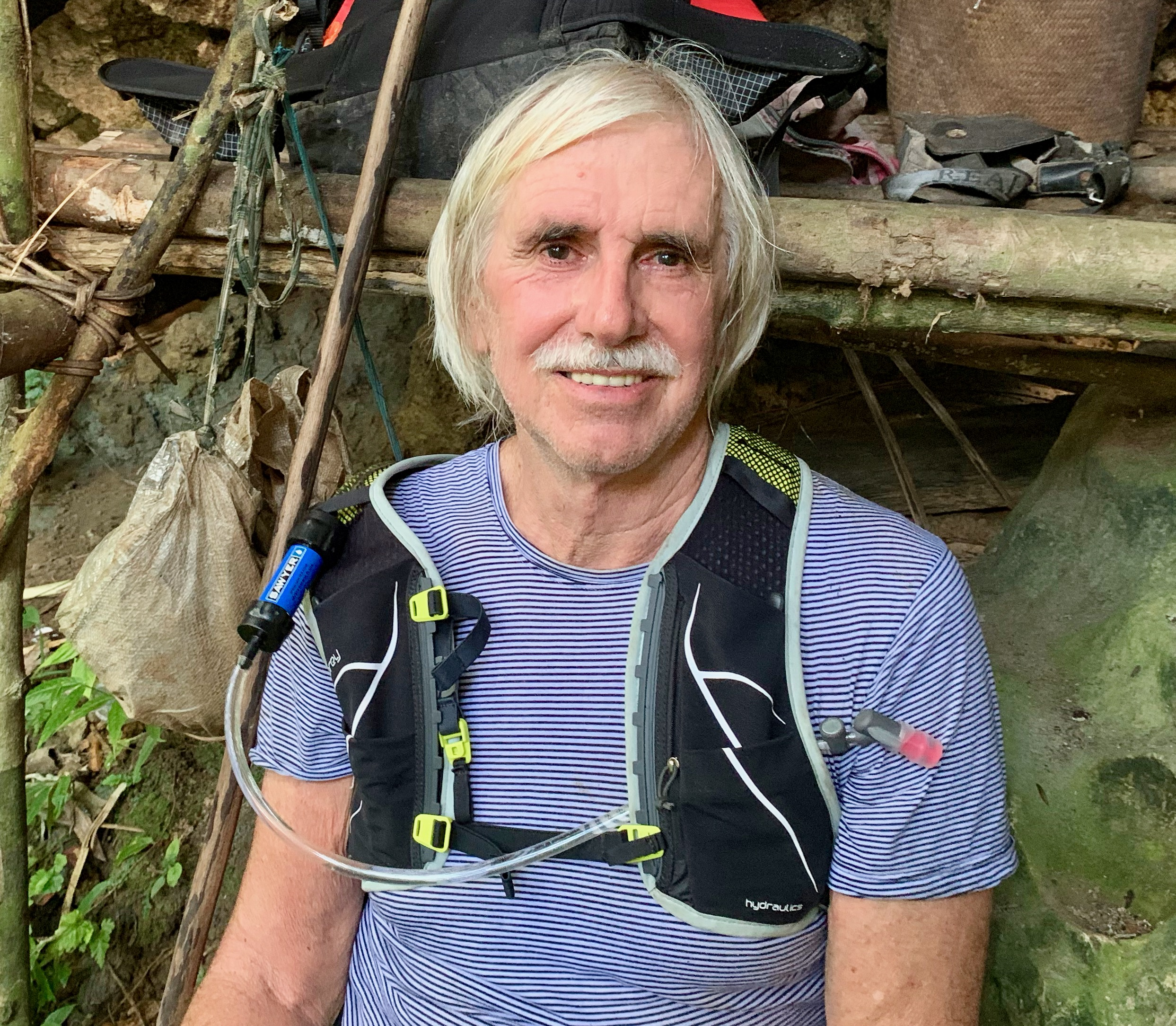 Steve Lansing in Borneo in 2019